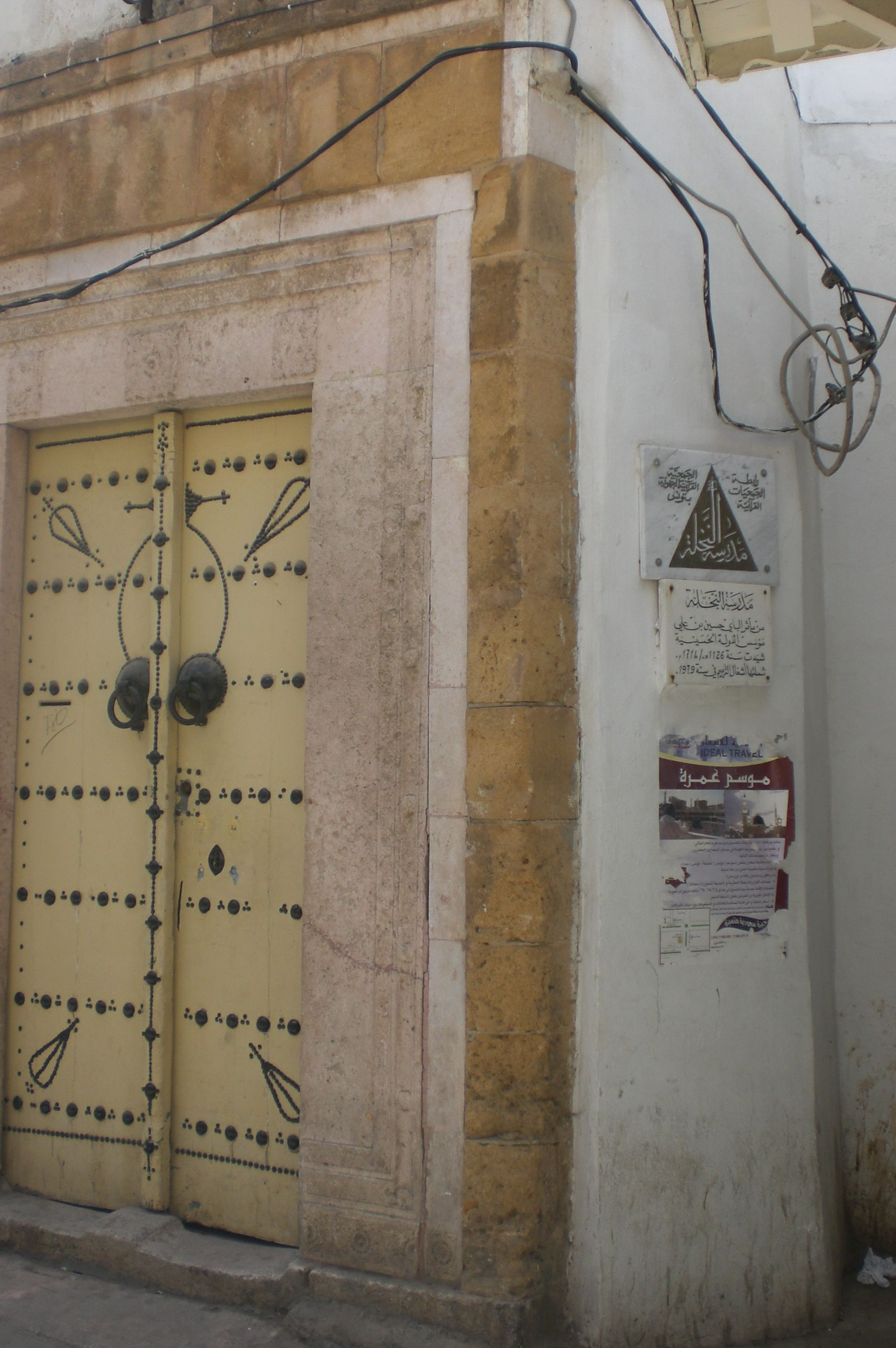 Nakhla Medersa in Tunis